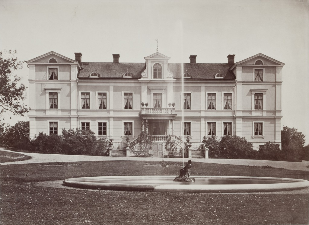 Photograph of Erikslund manor in Sweden